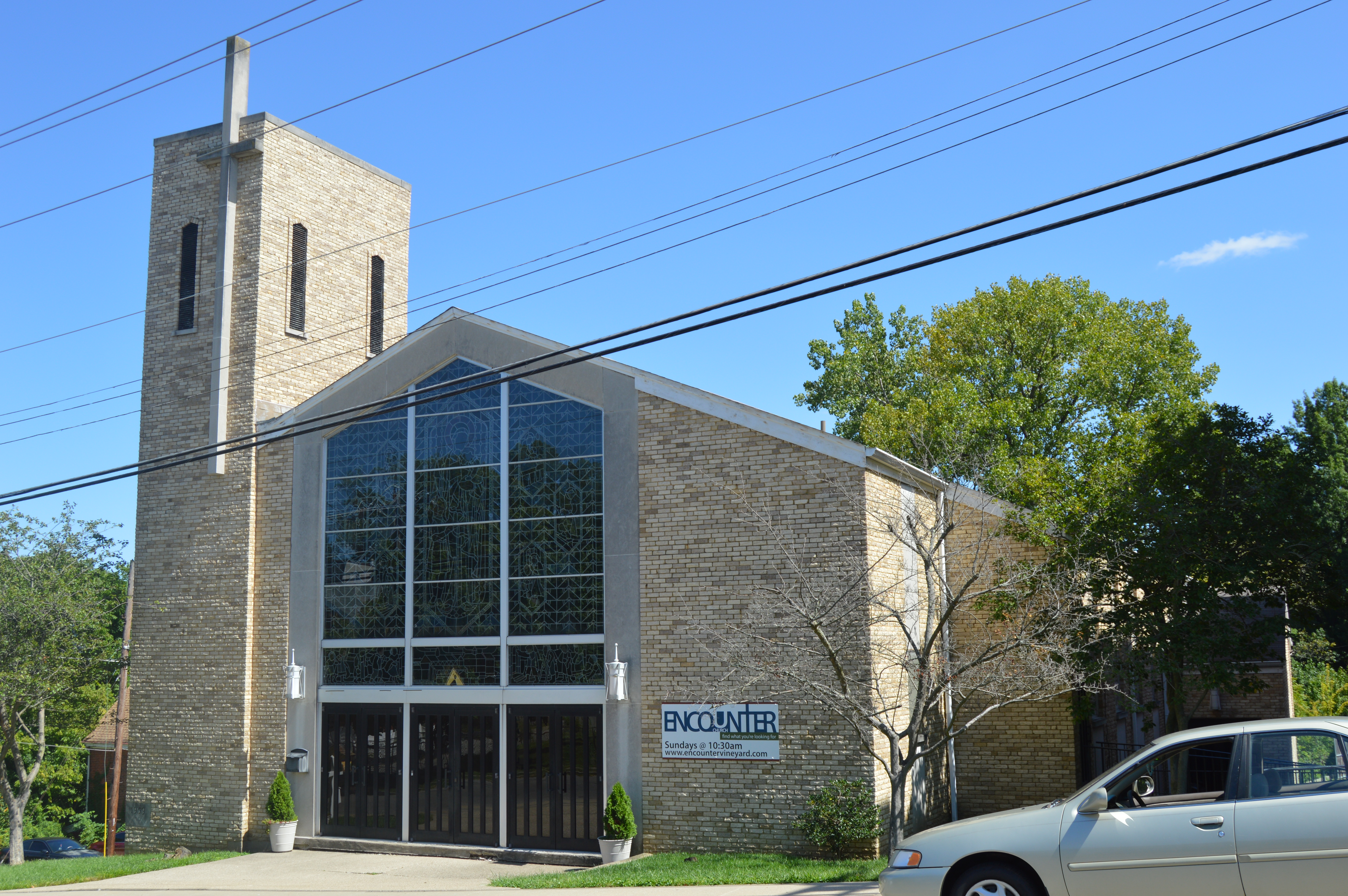 Front and western side of the former St. Vincent de Paul Catholic Church (now a Vineyard church), located at 115 Main Street in Newport, Kentucky, United States. It was built in 1959.